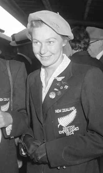 Don Jowett and Jean Stewart, members of 1954 Empire Games team, photographed on arrival back in New Zealand 17 August 1954 by a Dominion staff photographer.